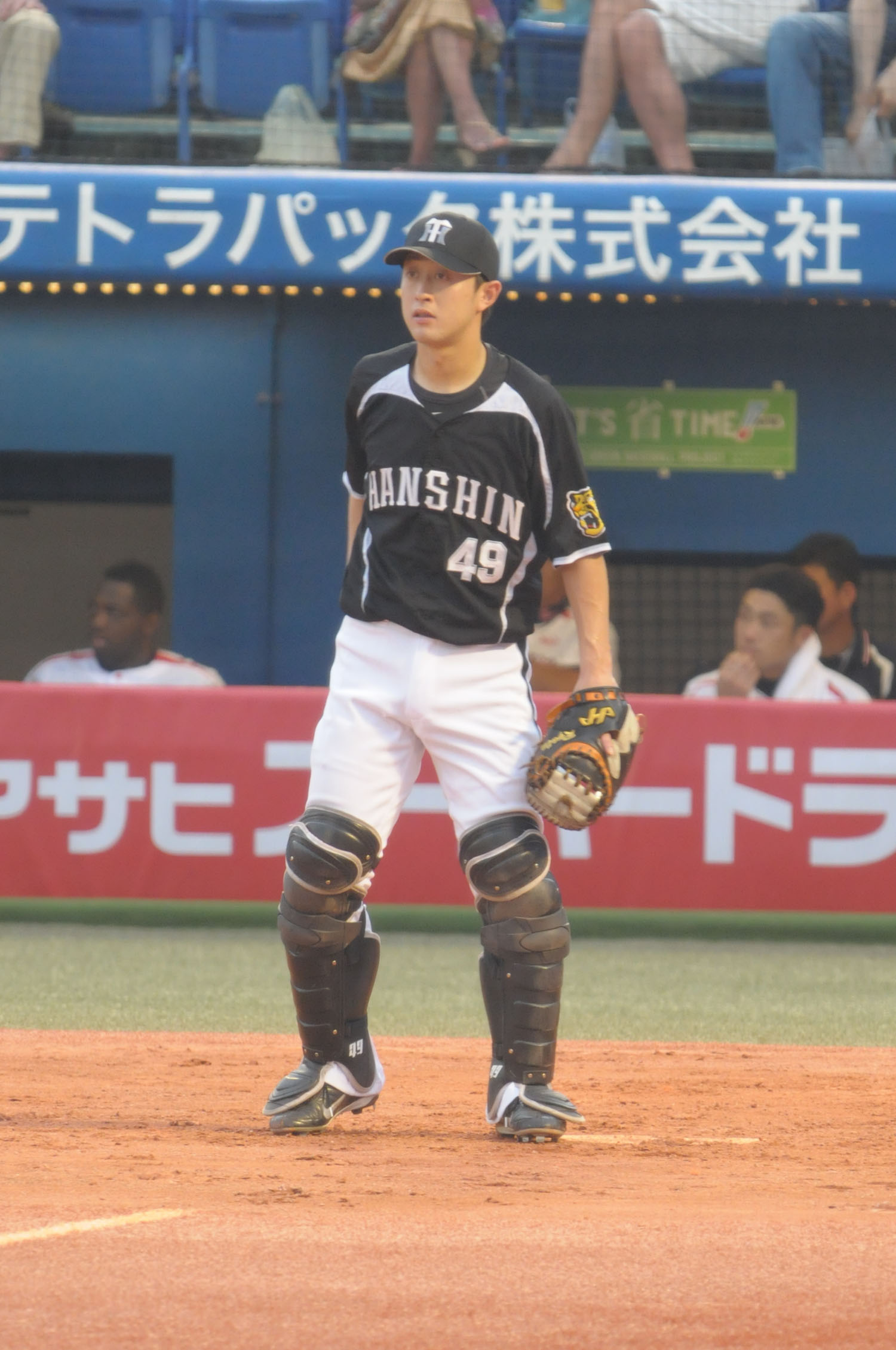 Ryota Imanari, catcher of the Hanshin Tigers, at Meiji Jingu Stadium.